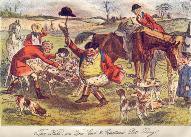 A print from the book Handley Cross or Mr Jorrocks's Hunt by R. S. Surtees.